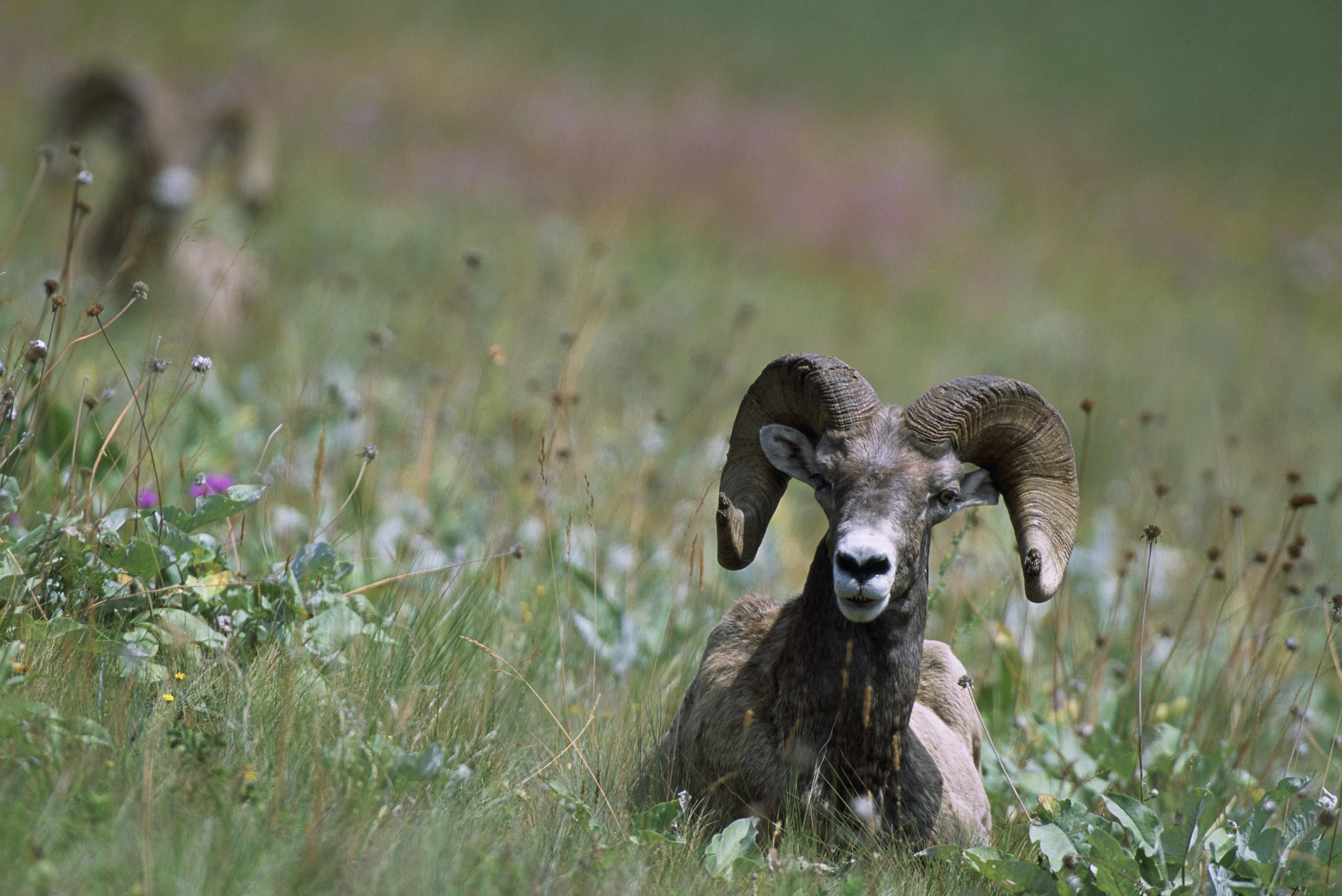 Image title: Bighorn sheep ovis canadensis Image from Public domain images website